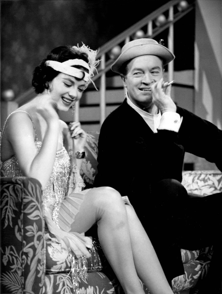 Natalie Wood and Bob Hope in Bob Hope Chevy Show.